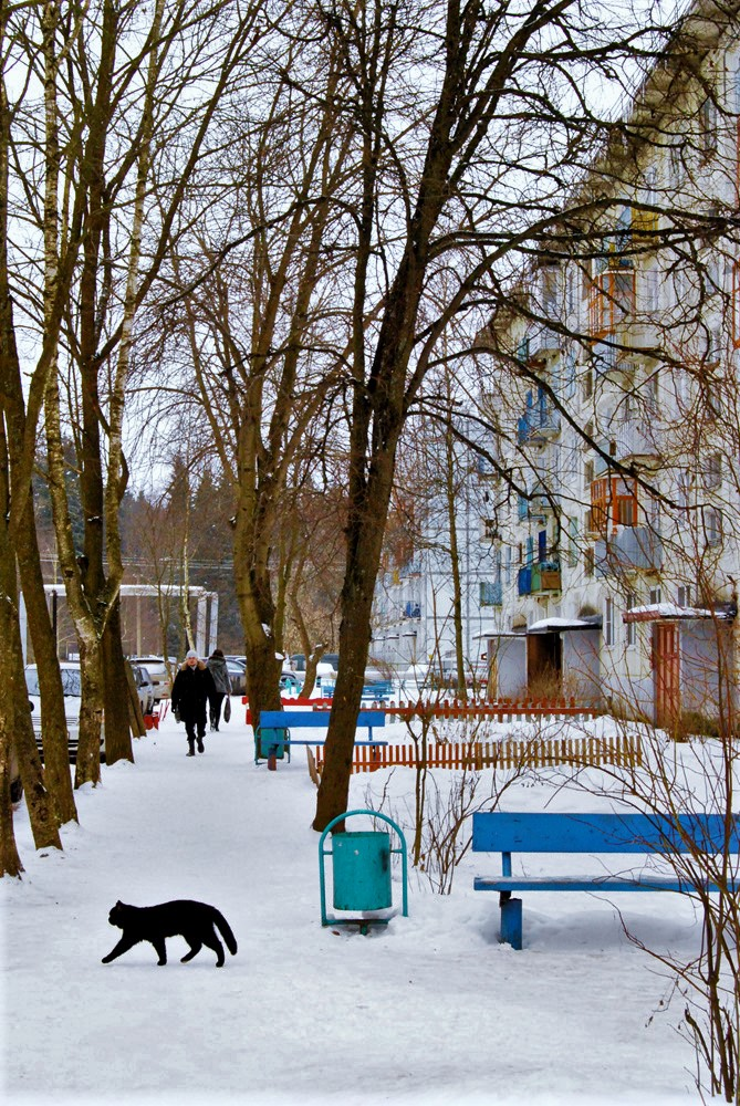 9, Molodyozhny